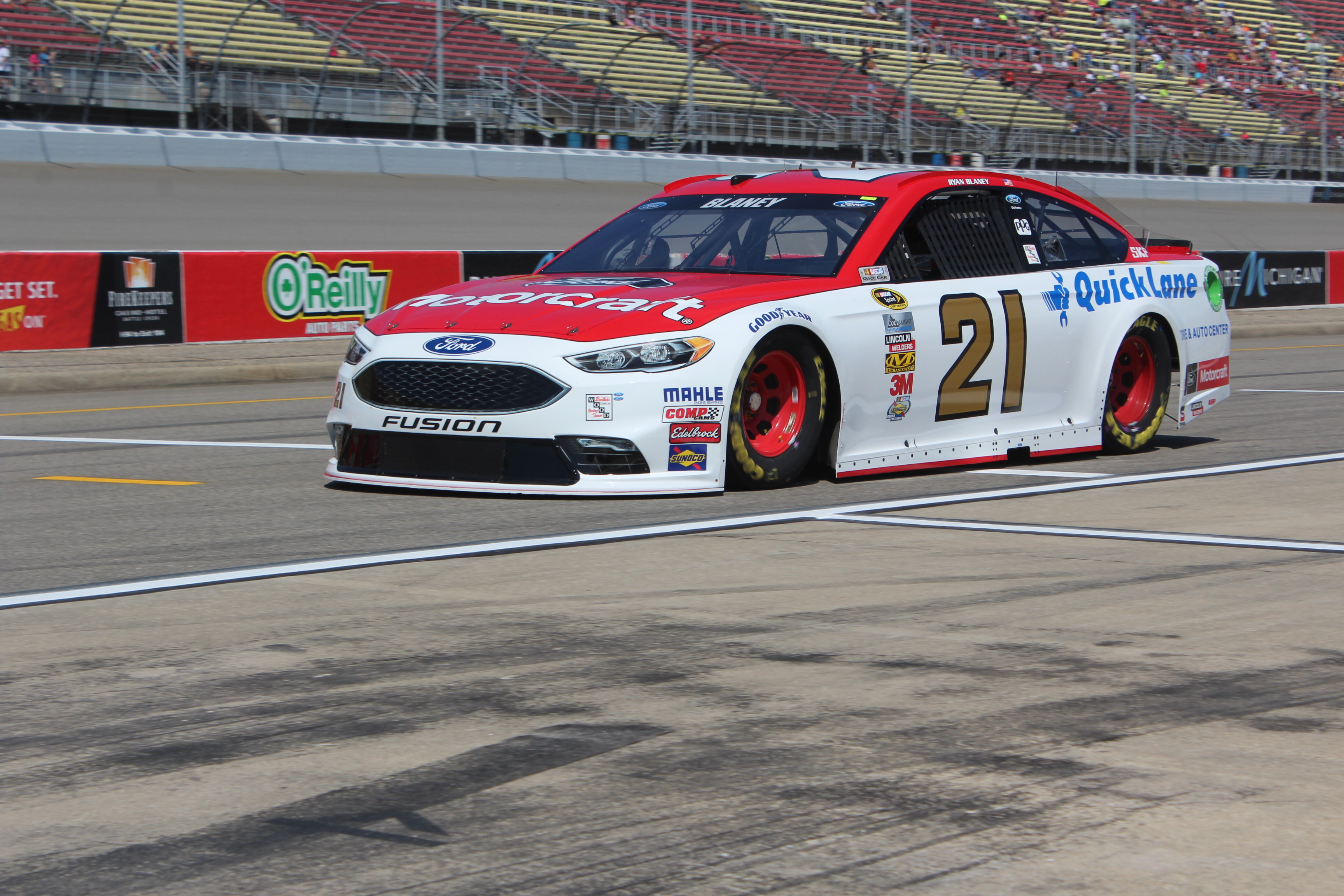 Ryan Blaney pilots his #21 Motorcraft Wood Brothers Racing Ford out for practice during the Pure Michigan 400 weekend.